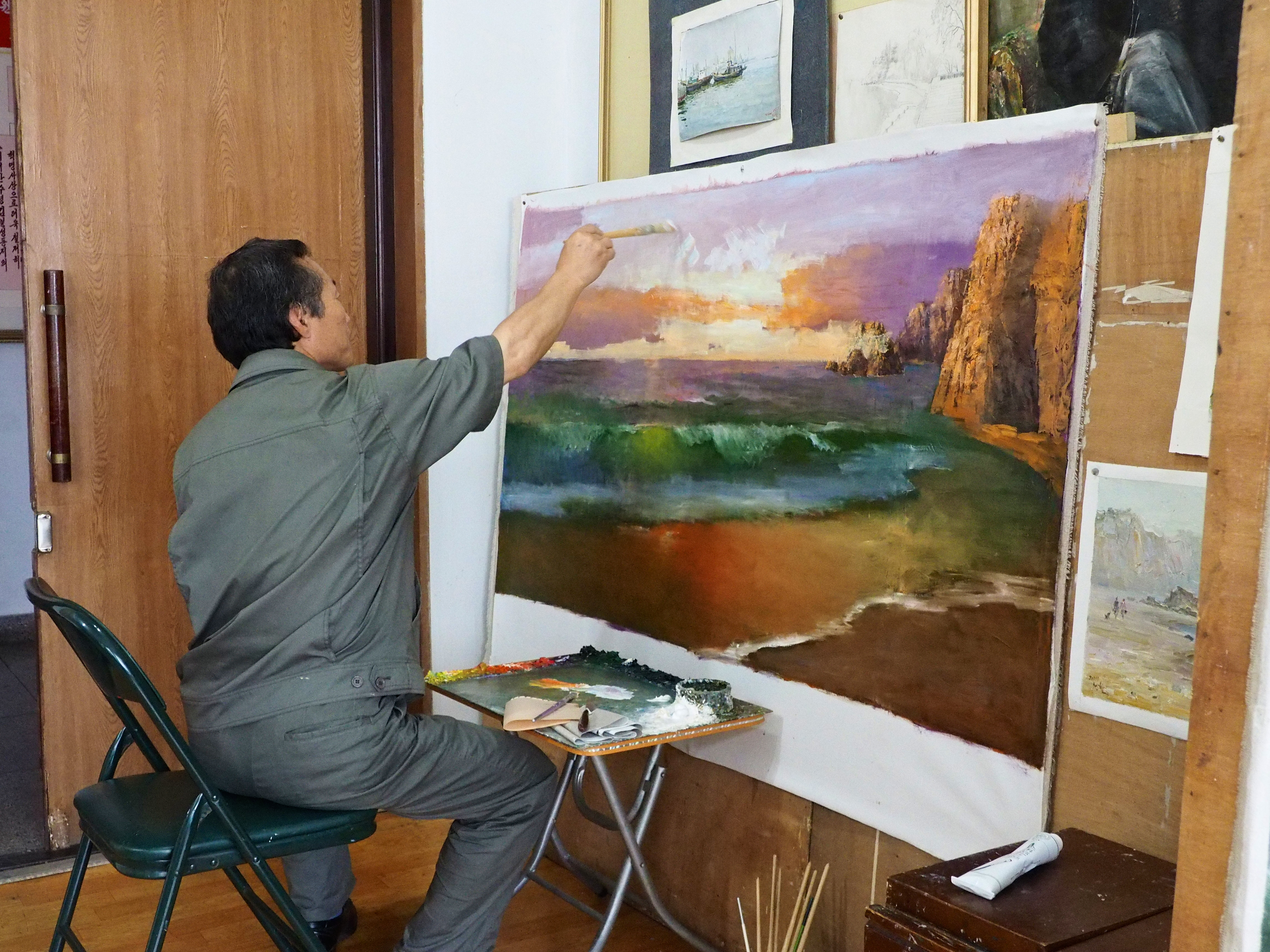 The Mansudae Art Studio is an art studio in Phyongchon District, Pyongyang, North Korea. It was founded in 1959 and employs around 4,000 people, including 1,000 artists.[1] Most of its artists are graduates of Pyongyang University.[2] The studio consists of 13 groups, the most important being the "Korean Painting" group. Other groups work with woodcuts, drawings, oil paintings, embroidery and jewel paintings, among other things.[2] Its foreign commercial division is known as the Mansudae Overseas Project Group of Companies.[2] All images of the Kims are produced by the Mansudae Art Studio.[3] Before his death, the Mansudae Art Studio was under the "special guidance" of Kim Jong Il.